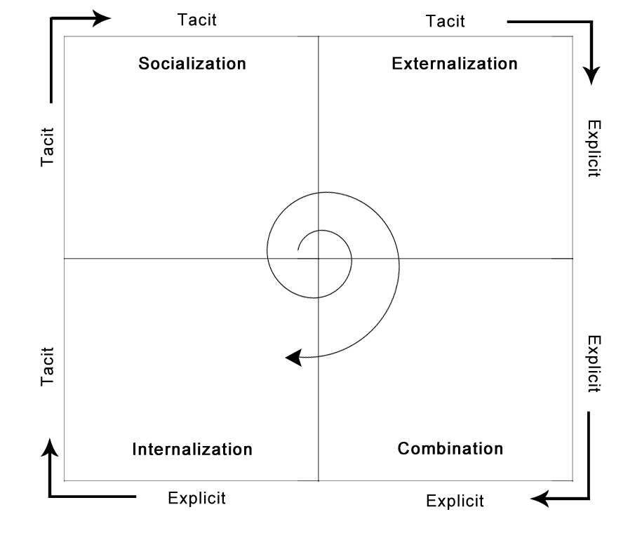 SECI model developed by Nonaka (1994), Nonaka et al. (1994), Nonaka & Takeuchi (1995), Nonaka et al. (2000), (2001a), Nonaka & Toyama (2003)